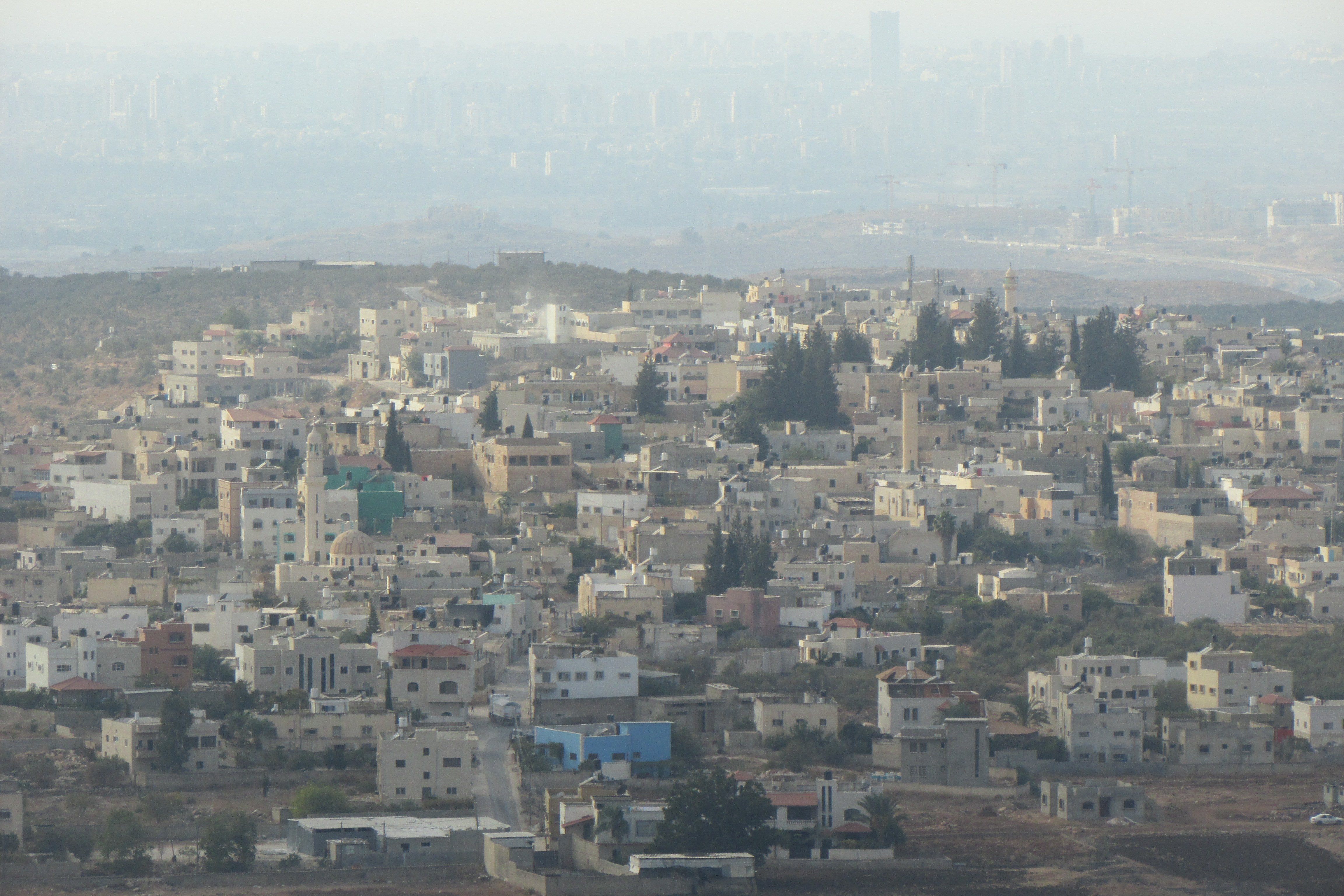 Deir Ballut from Peduel